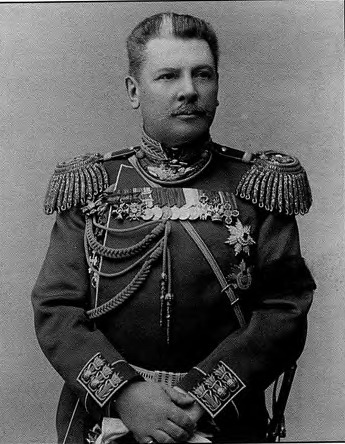 Min, Geory Aleksandrovich